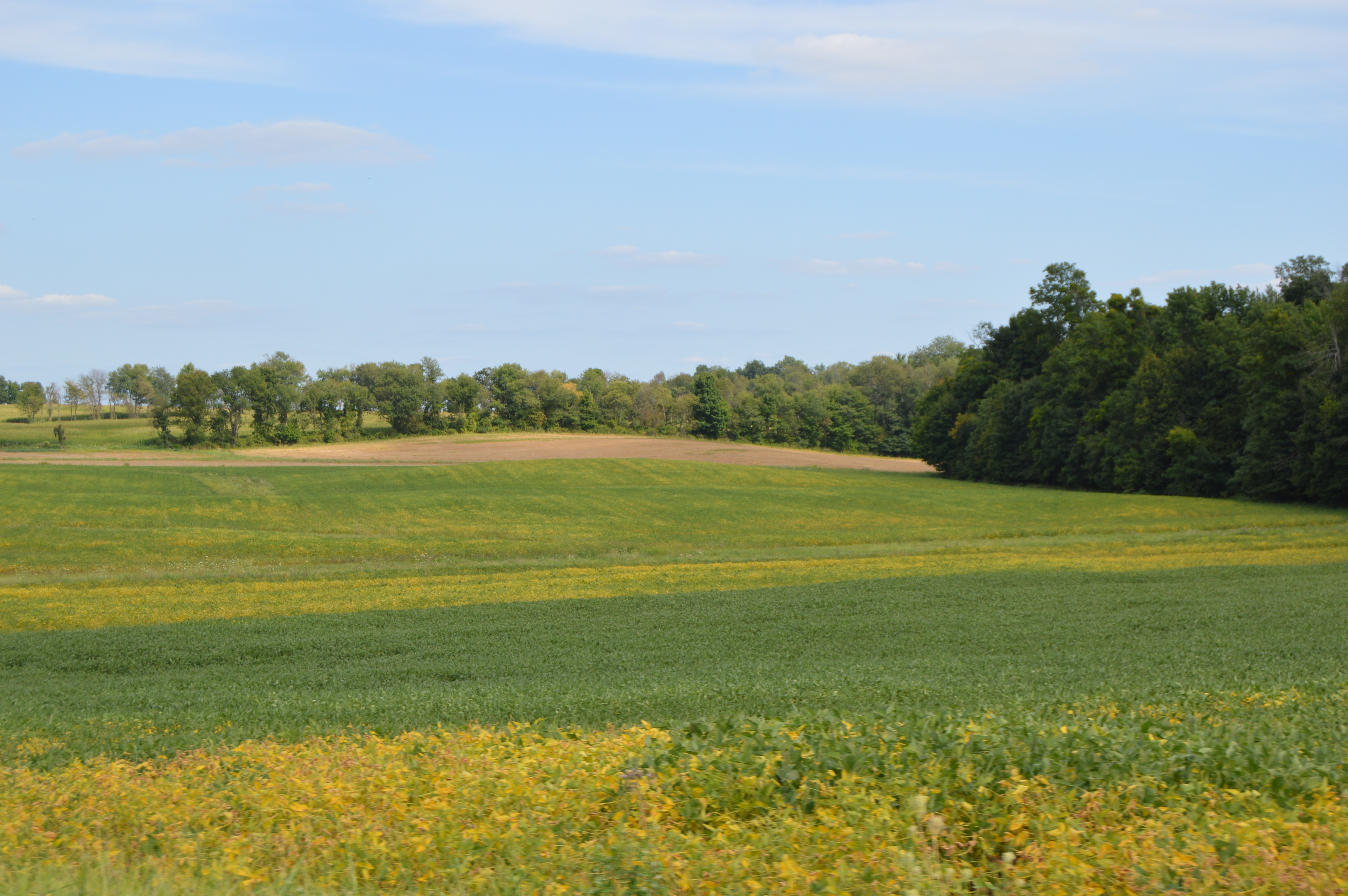 Looking eastward from Fox Road over fields west of Lexington in southwestern Troy Township, Richland County, Ohio, United States.